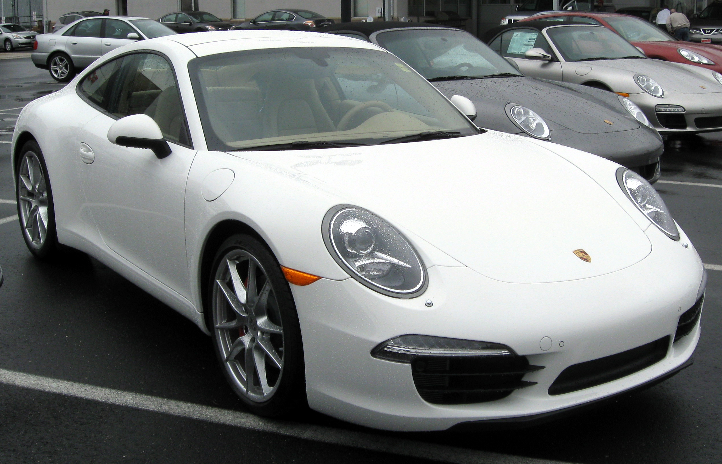 2012 Porsche 911 photographed in Silver Spring, Maryland, USA.